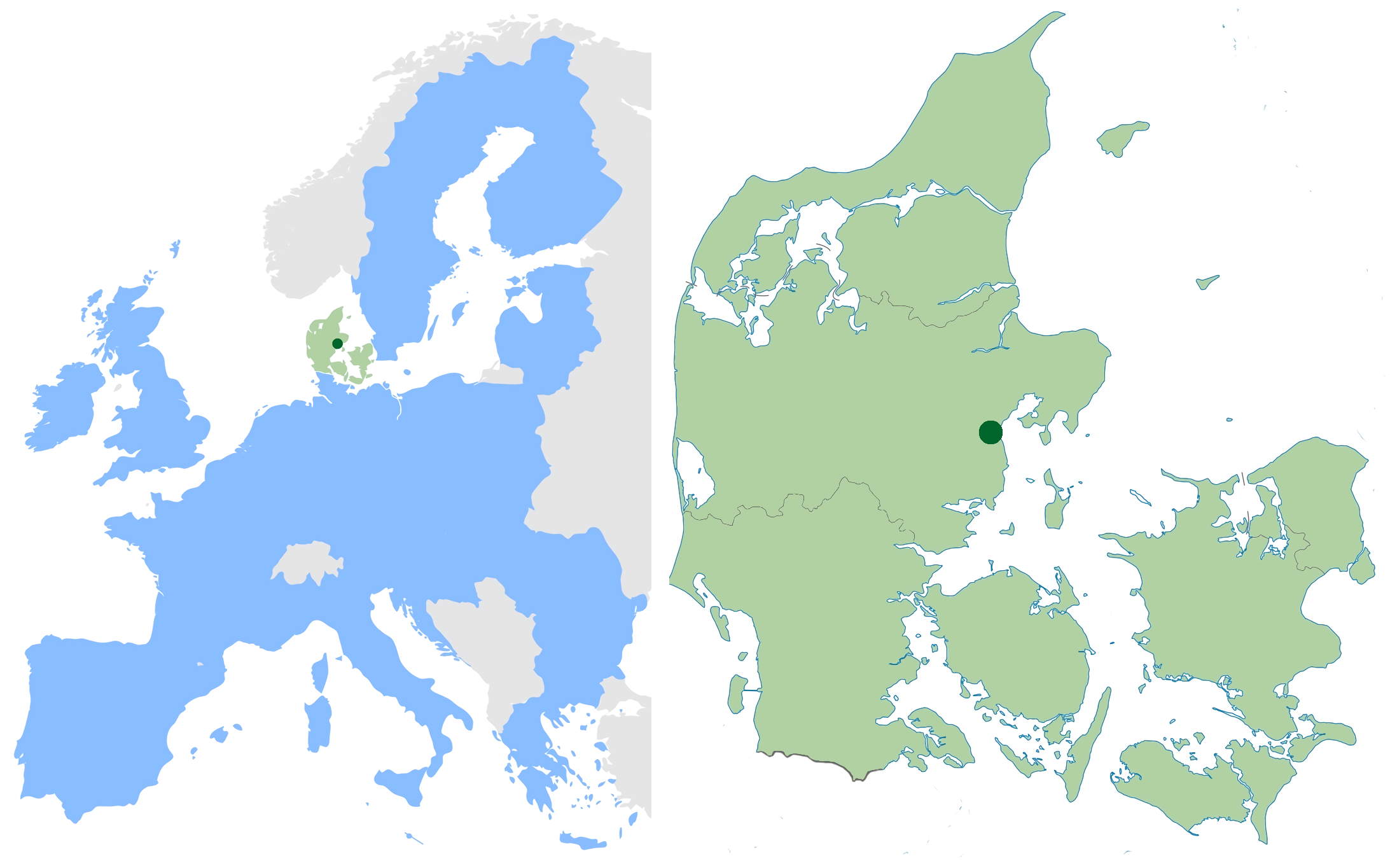 PNG format version of File:Aarhus in the European Union and Denmark.jpg Map depicts Aarhus in the European Union and in Denmark Created from "Denmark_location_map.svg" and "Berlin in Germany and EU.png"